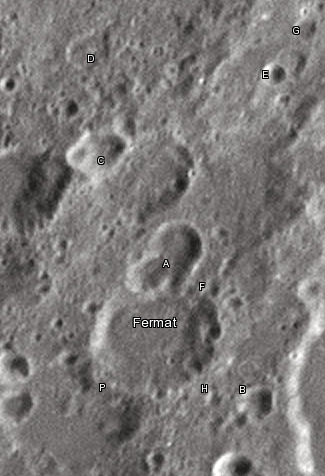 Fermat lunar crater as seen from Earth with satellite craters labeled